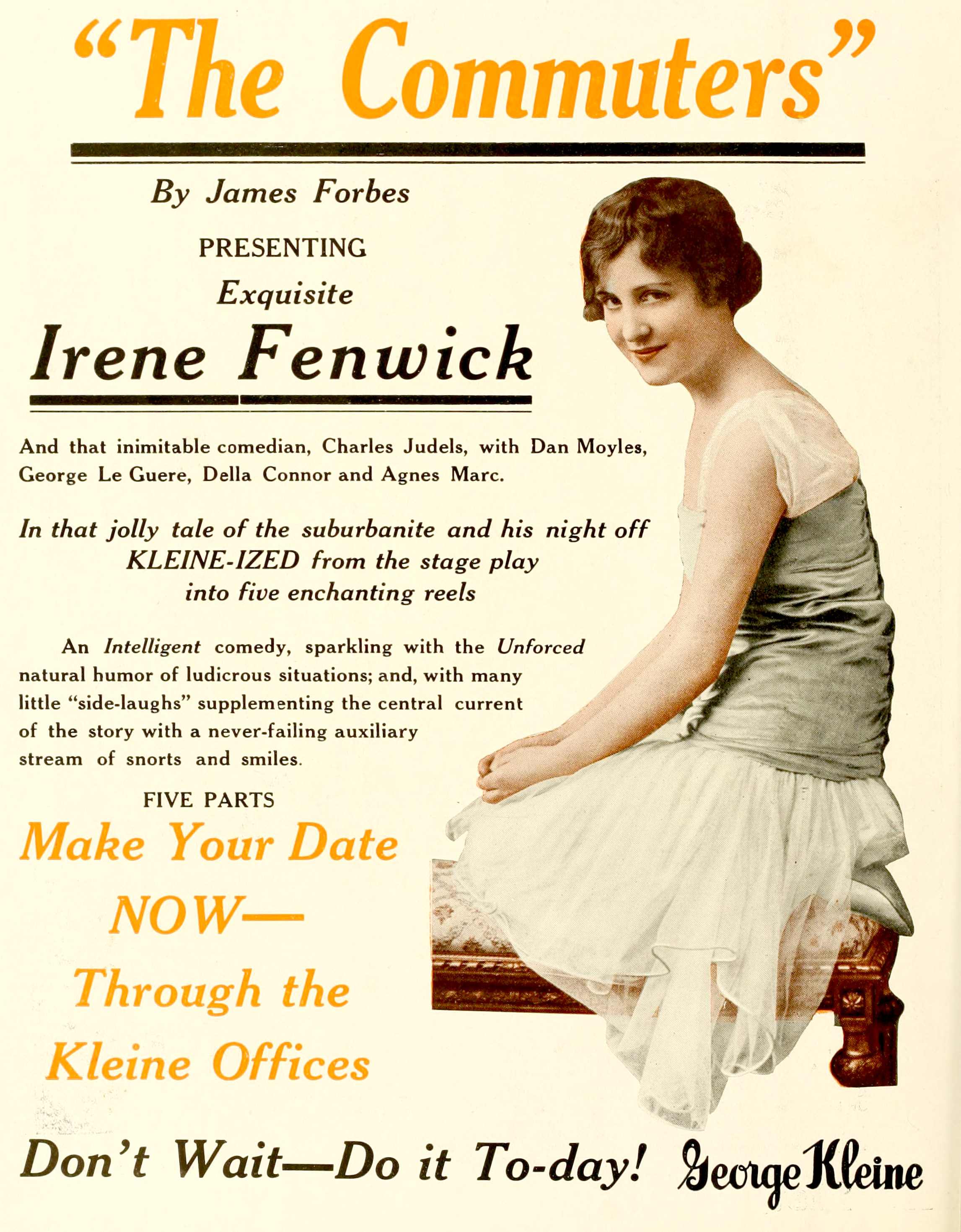 Colored photograph of Irene Fenwick, from a trade-magazine advertisement for the American film The Commuters (1915).